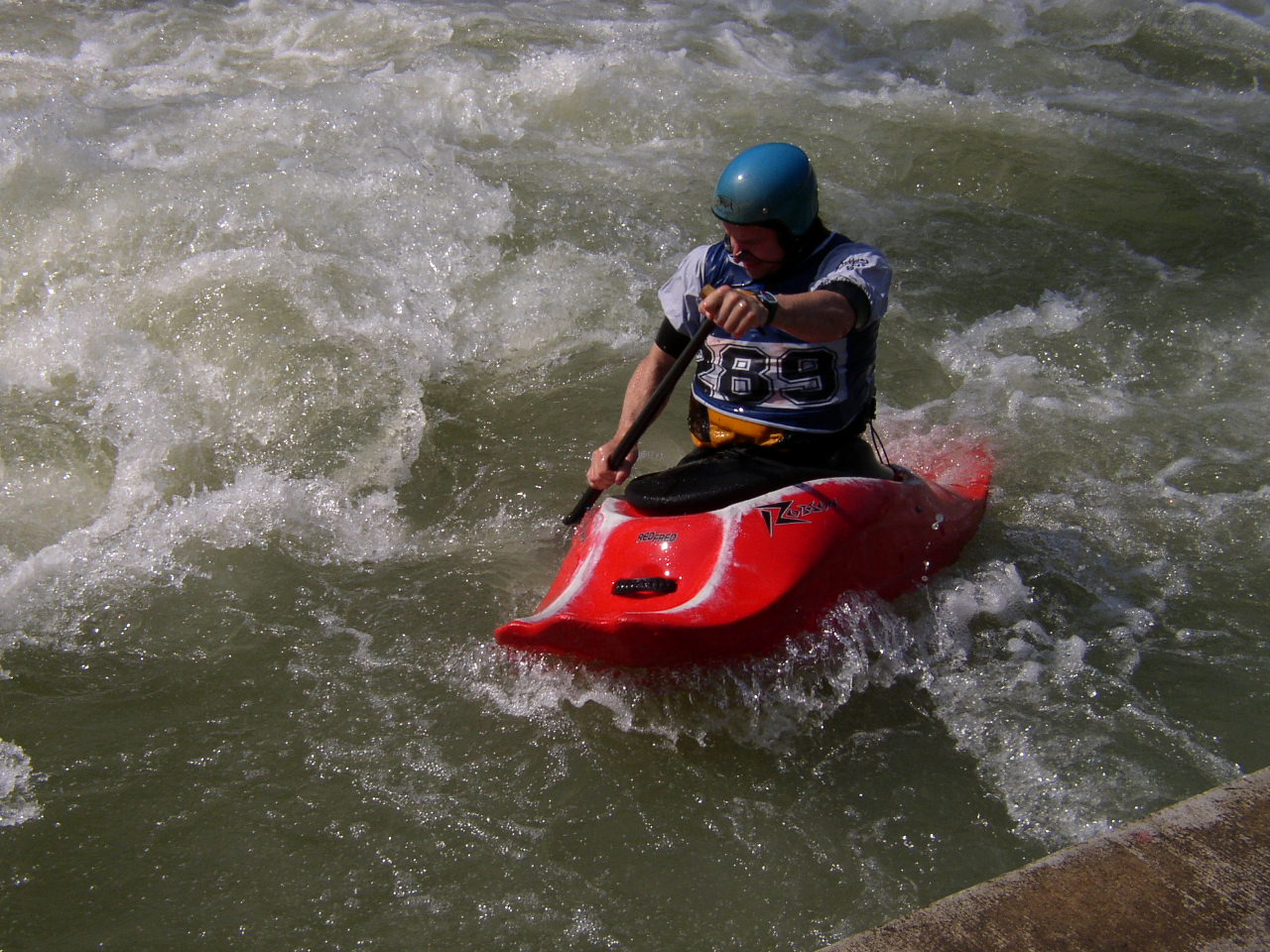 Eurocup Playboating, Eiskanal in Augsburg, Germany; Boat: Robson Red Fred; Canoeist: Toby Hüther (Germany, Saarbrücker Kanu Club), result: 2nd place C-1